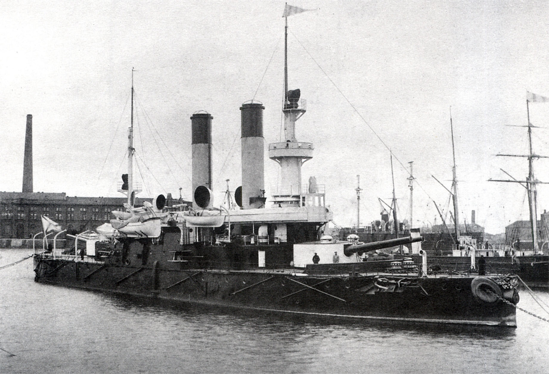 Imperial Russian coastal battleship Admiral Ushakov at Kronstadt, 1897.